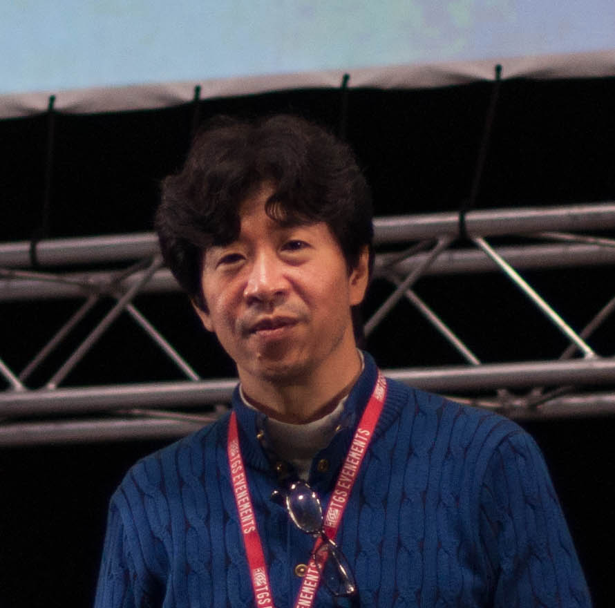 Ryo Mizuno, Toulouse Game Show 2014's guest of honour.